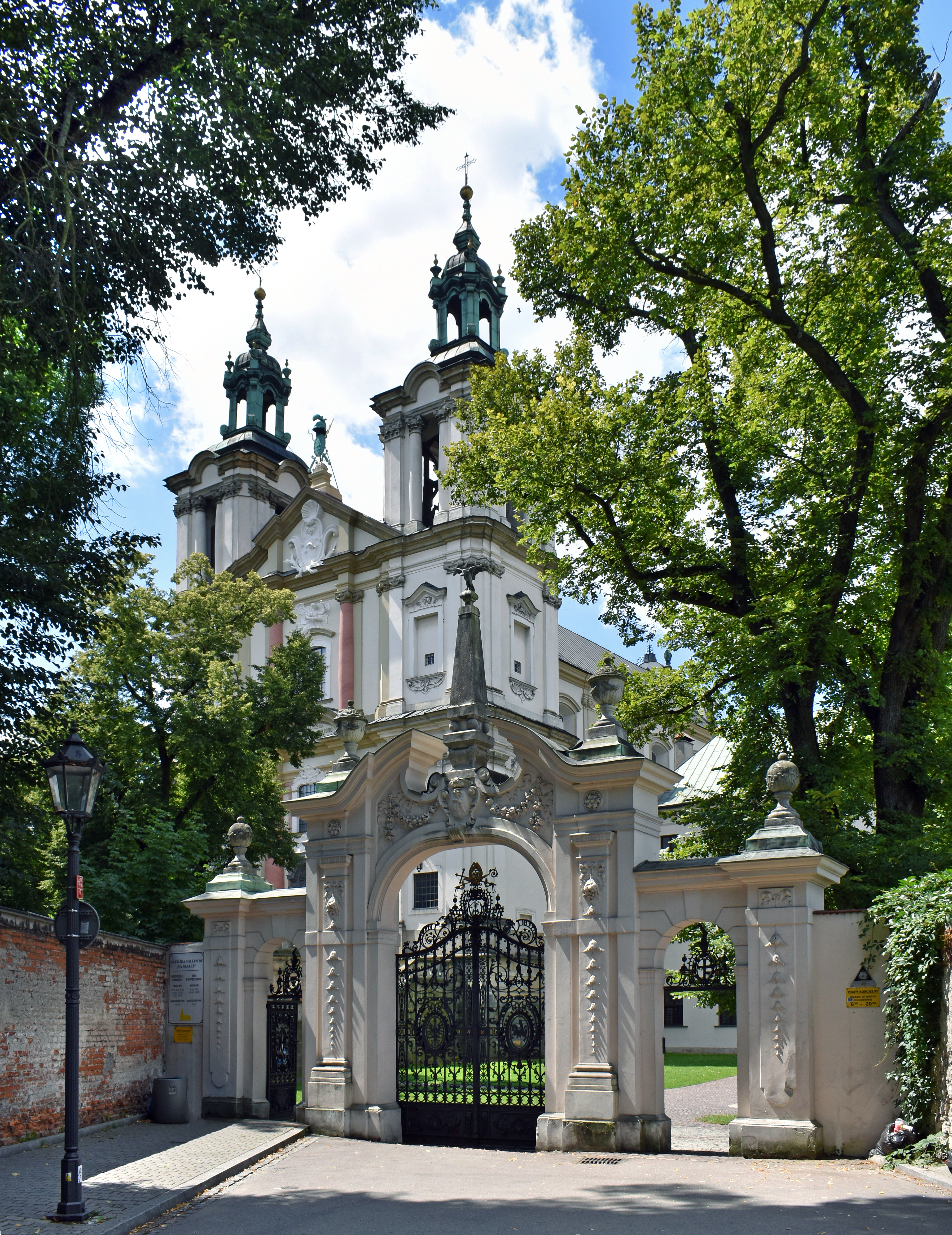 Church of St Michael the Archangel and St Stanislaus Bishop and Martyr, gate, 15 Skałeczna street, Kazimierz, Krakow, Poland